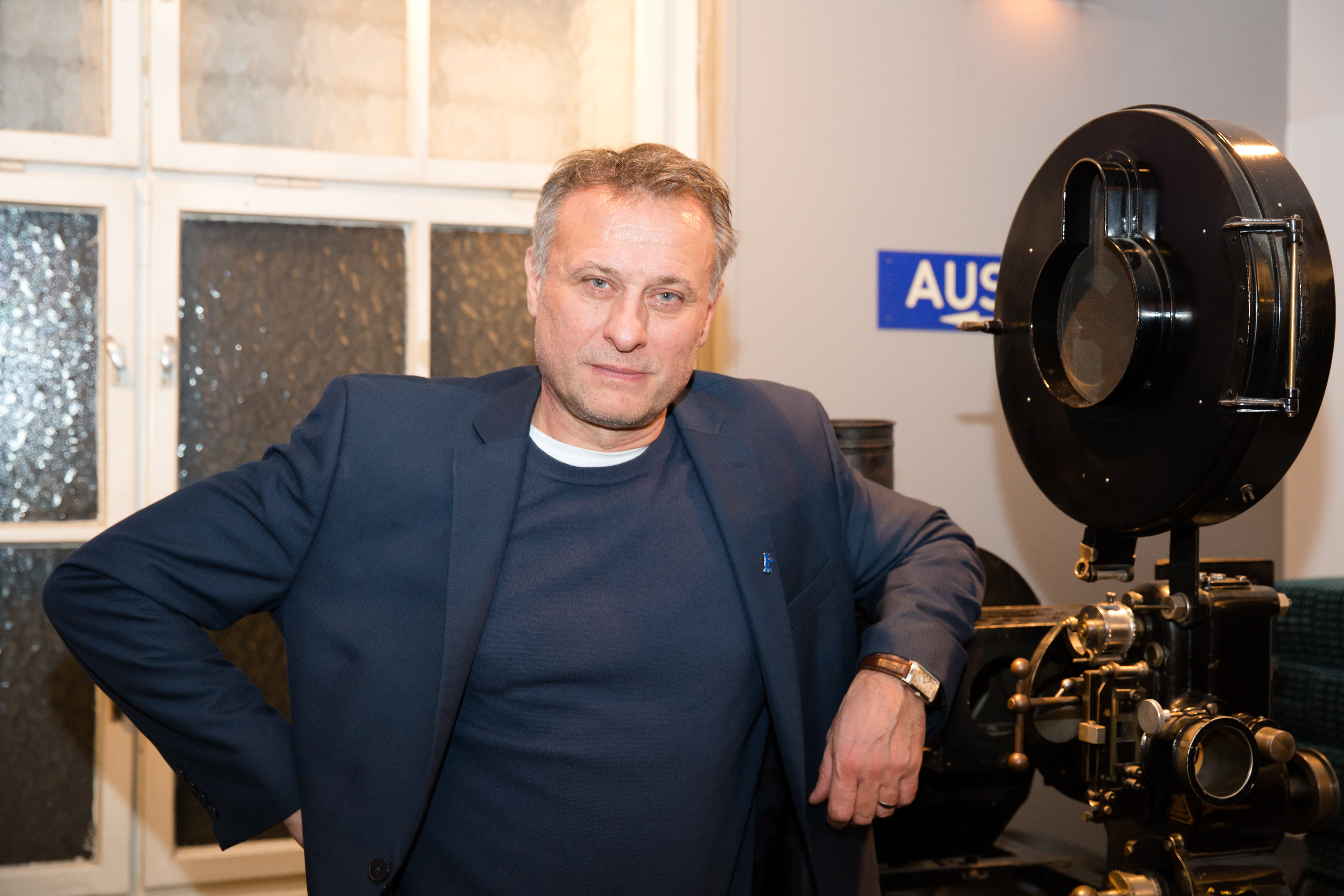 Actor Michael Nyqvist at the Austrian premiere of Colonia at Votivkino in Vienna.